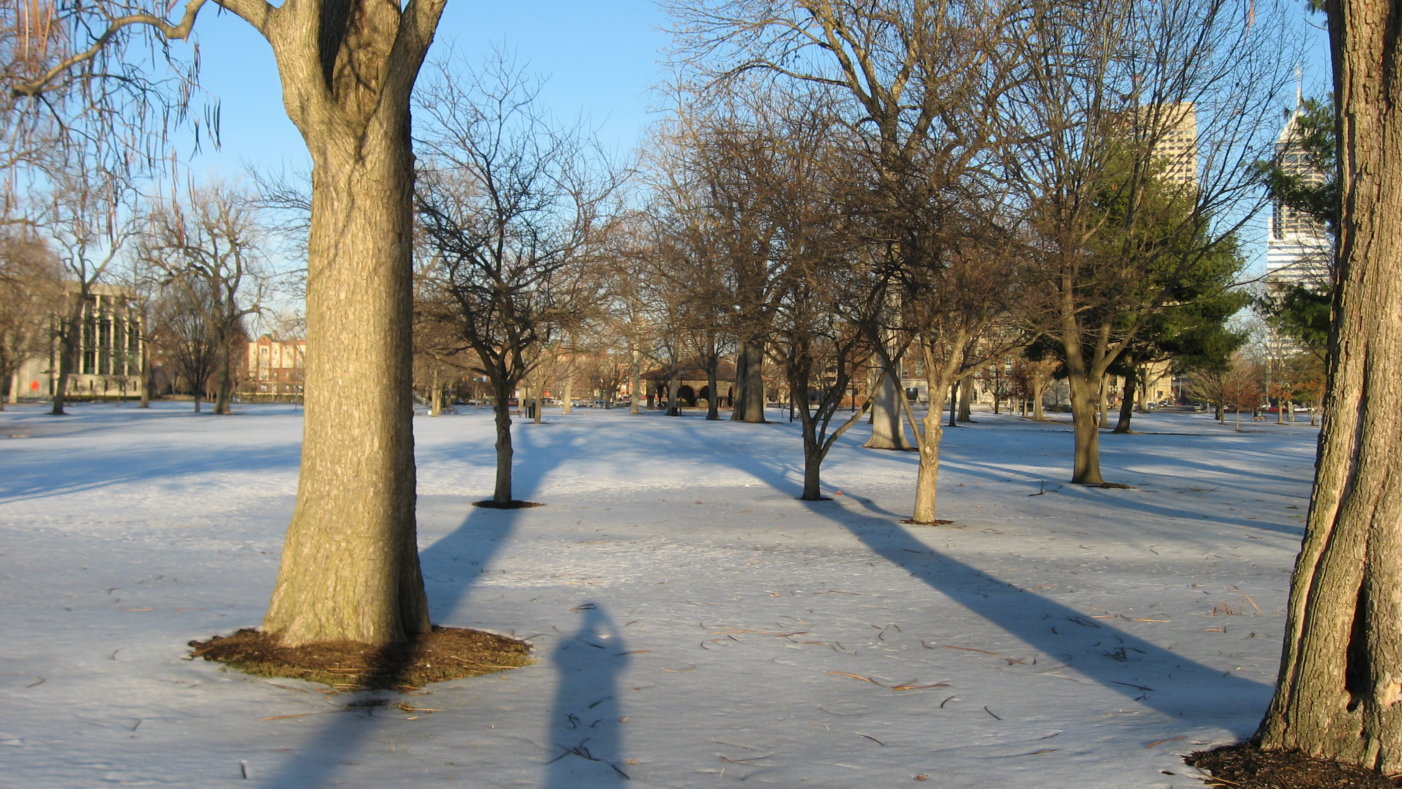 Snow in the late afternoon on Military Park, located just west of downtown Indianapolis, Indiana, United States, seen from its western side. Formerly a military encampment known as Camp Sullivan during the American Civil War, the park is listed as a historic district on the National Register of Historic Places.